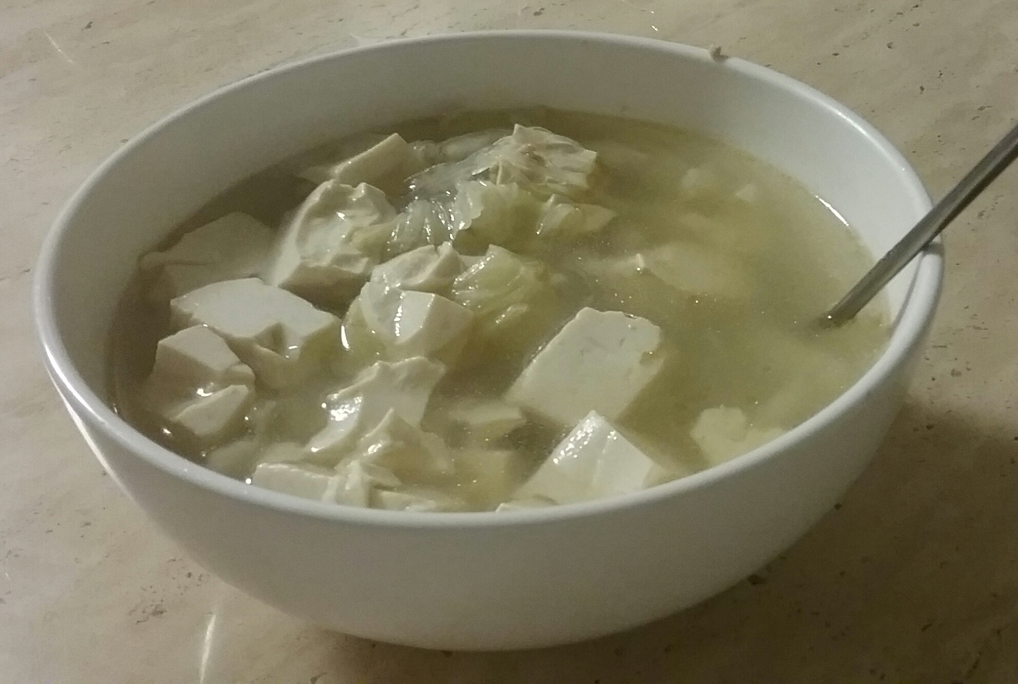 Napa Cabbage & Tofu soup. Recipe is from (2018) Chinese Soul Food: A Friendly Guide for Homemade Dumplings, Stir-Fries, Soups, and More, Seattle, WA: Sasquatch Books ISBN: 9781632171238.